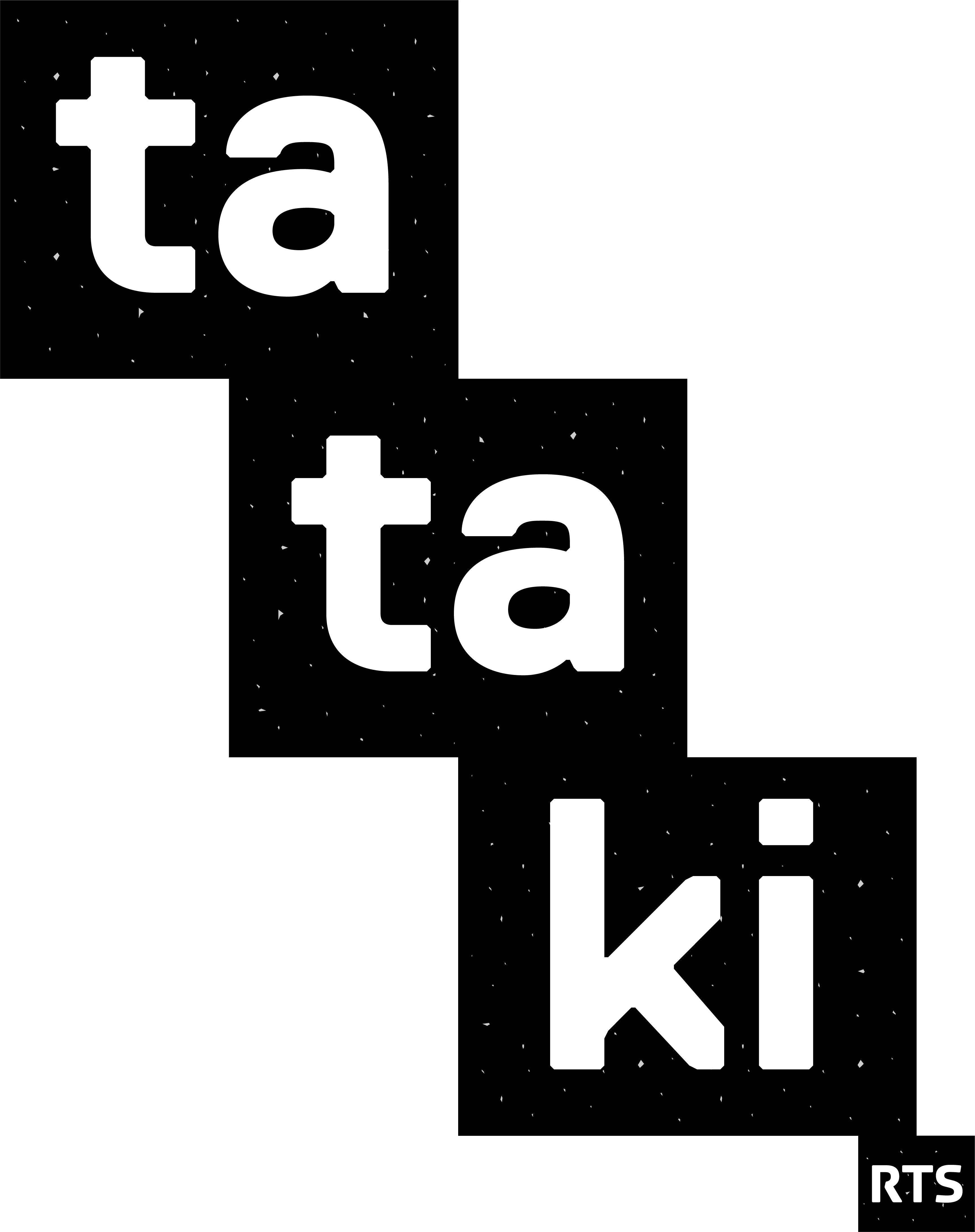 Logo Tataki